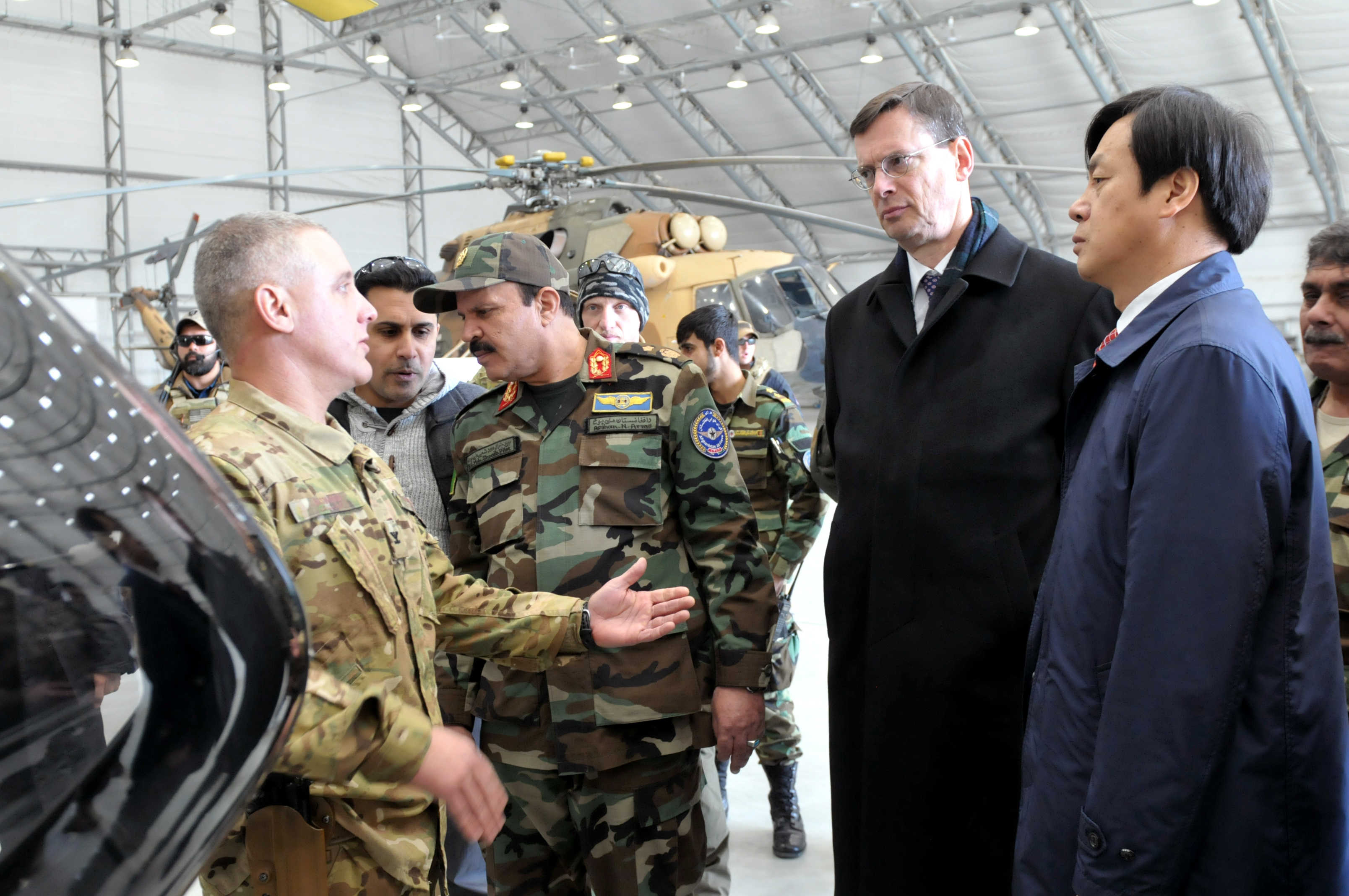 Walter Haßmann, German Ambassador to Afghanistan; Chin Ki-Hoon, Republic of Korea Ambassador to Afghanistan; Maj. Gen. Richard Kaiser, Combined Security Transition Command – Afghanistan commander and Security Assistance, Headquarters, Resolute Support deputy chief of staff, and CSTC-A Command Sgt. Maj. Daniel Hendrex, visited Train, Advise, Assist Command – Air, Kabul, Afghanistan, Feb. 22, 2017. Col. Nick Gismondi, TAAC-Air deputy commander and 438th Air Expeditionary Wing vice commander, along with Afghan Brig. Gen. Mohammad Shoaib Stanikzai, Afghan Air Force commander, and multiple TAAC-Air subject matter experts, gave the ambassadors a mission briefing and tour of AAF aircraft.